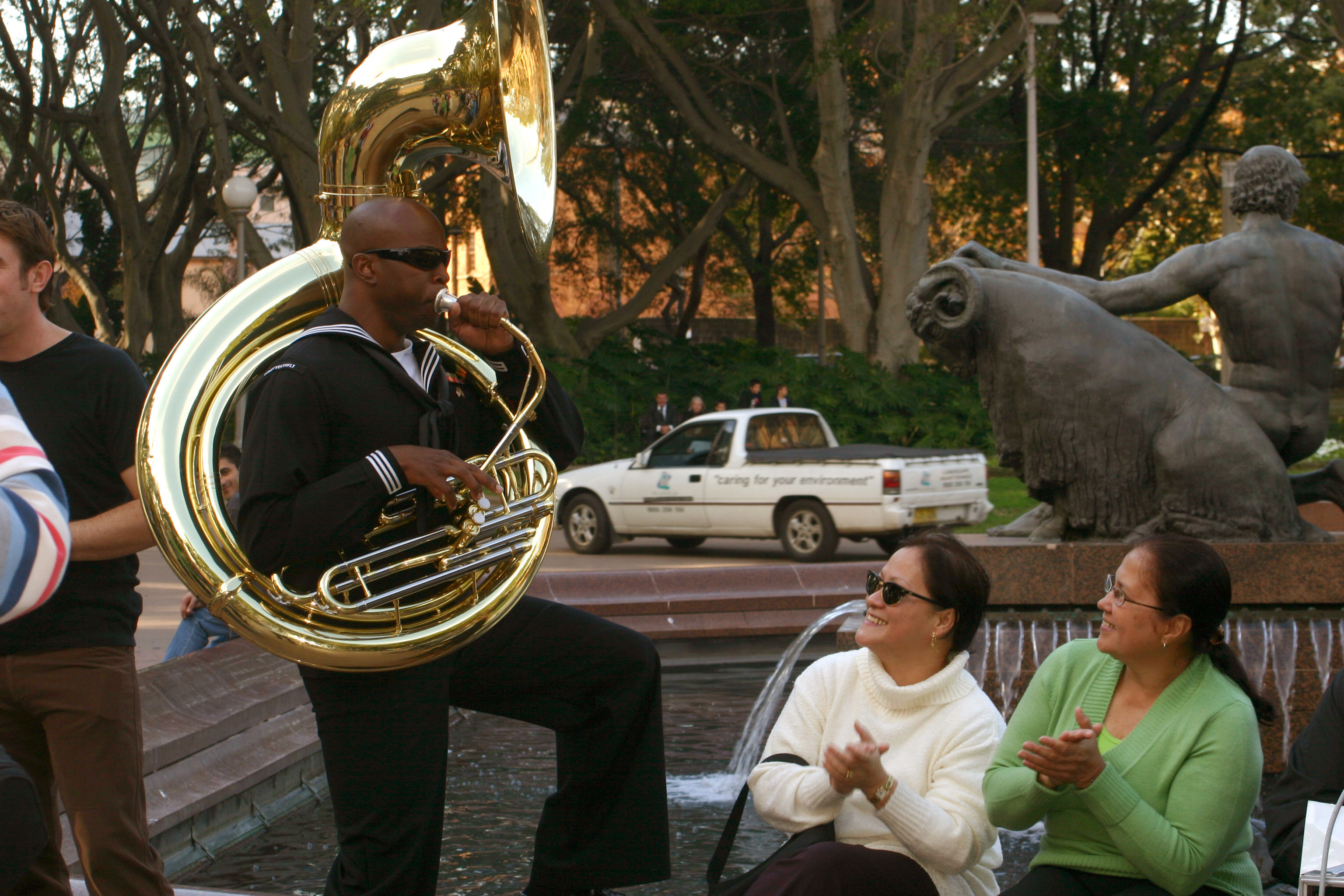 Sydney, Australia (June 9, 2005) - Musician 2nd Class Algie Smith assigned to the U.S. 7th Fleet Band entertain the crowd during a free public concert held in the Nagoya Gardens at Hyde Park. The band is in Sydney as part of a routine port visit by the amphibious command ship USS Blue Ridge (LCC 19) and the embarked staff of commander, U.S. 7th Fleet, in preparation for exercise Talisman Saber 2005. U.S. Navy photo by Photographer's Mate 2nd Class Terry Spain (RELEASED)